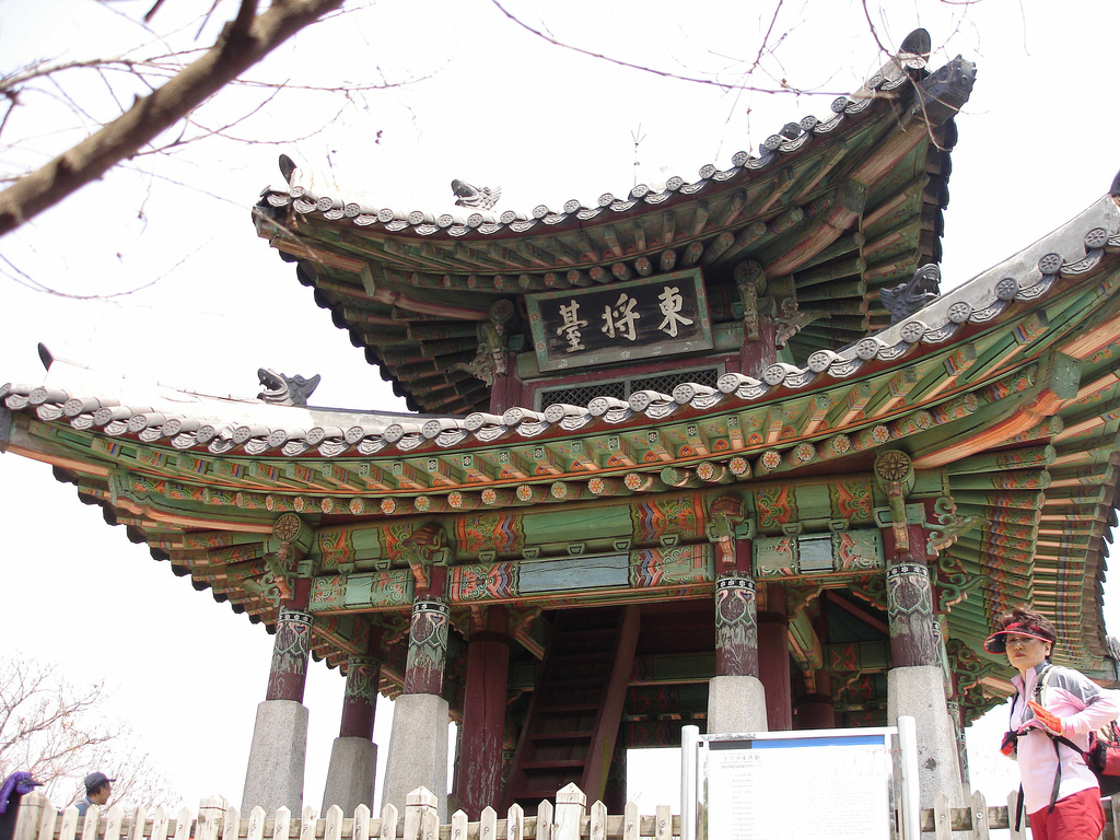 Dongjak Control Tower of Bukhansan (Mt. Bukhan), located on the north side of Seoul, South Korea.